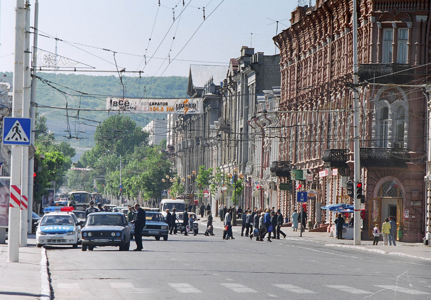 Moskovskaya Street (Moscow Street) in Saratov, Russia.